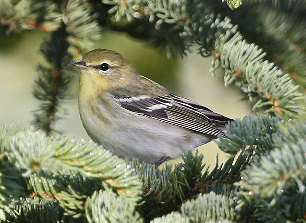 A photograph of a Blackpoll Warbler with its fall plumage, photographed in Alaska